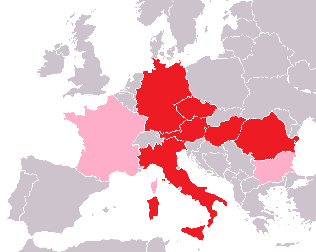 A map of the countries Penny operates in Europe (red: exists in present, light red: formerly)